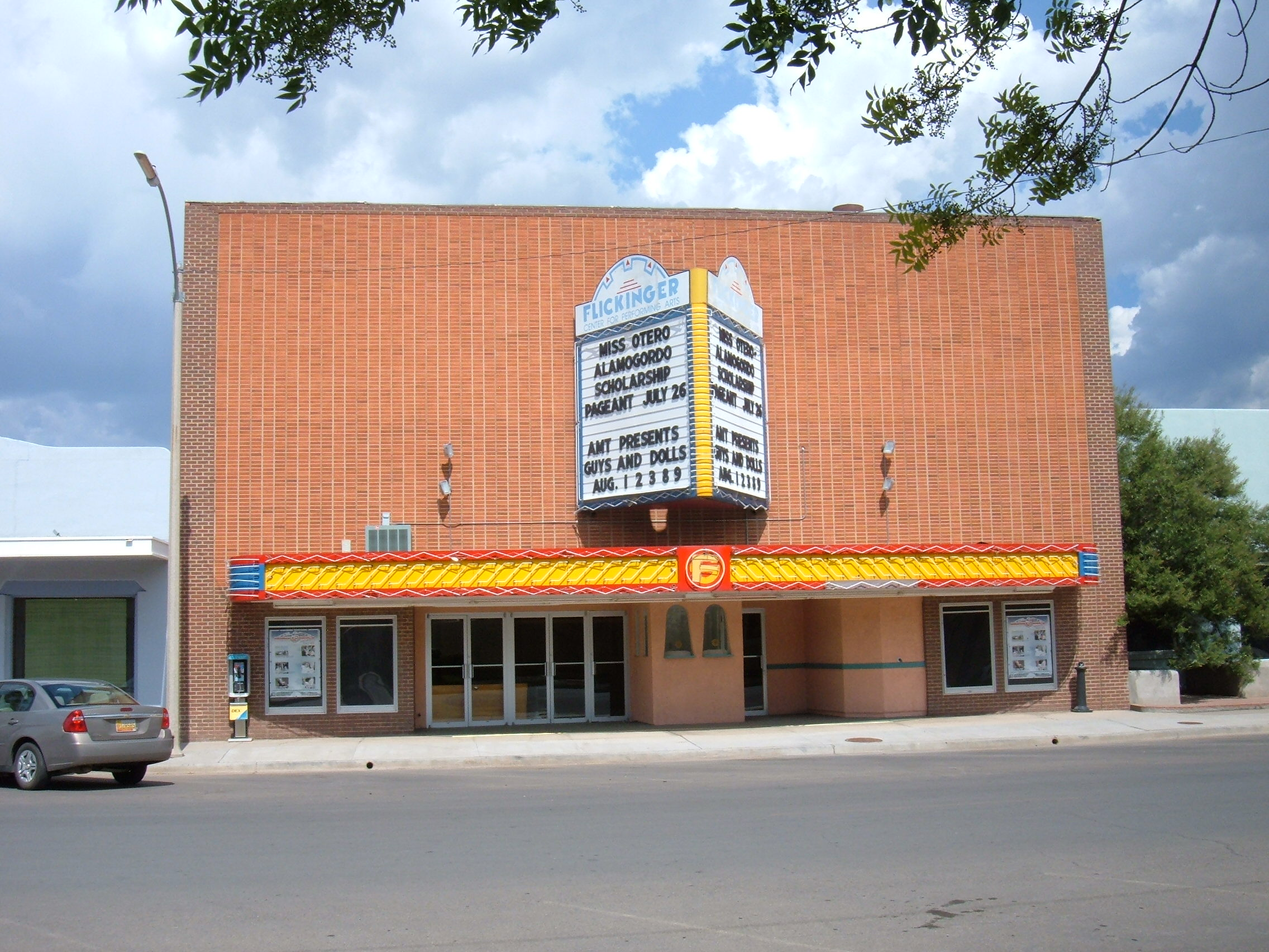 Flickinger Center for Performing Arts in Alamogordo, New Mexico, located at 1110 New York Avenue, showing the box office and entrance doors.